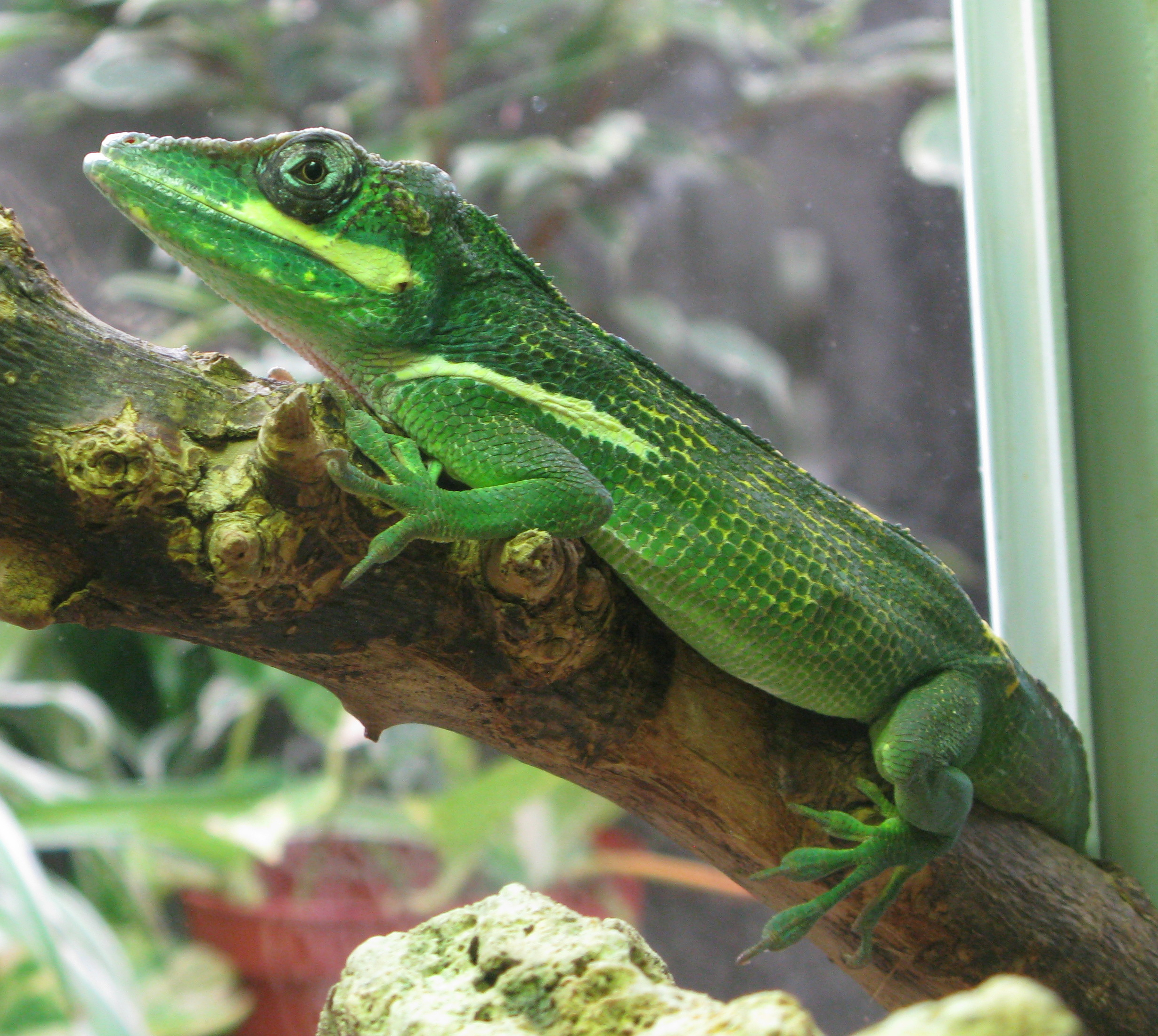 Knight anole (anolis equestris) at Ménagerie du Jardin des plantes, Paris.